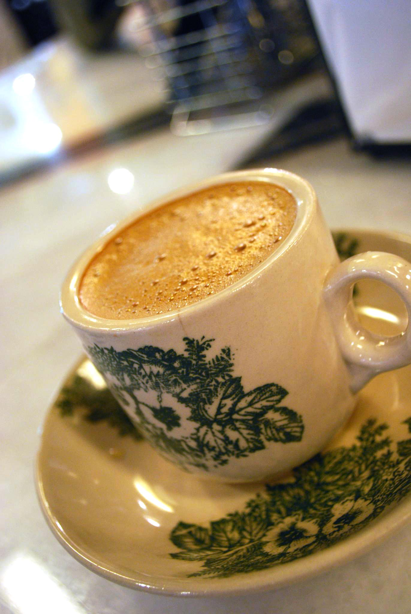 Kopi Cham, a drink of coffee plus tea, commonly served hot or iced in Malaysia.